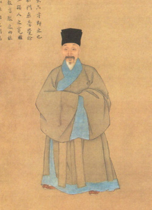 Zhao Shi'e, politician of the Ming Dynasty.